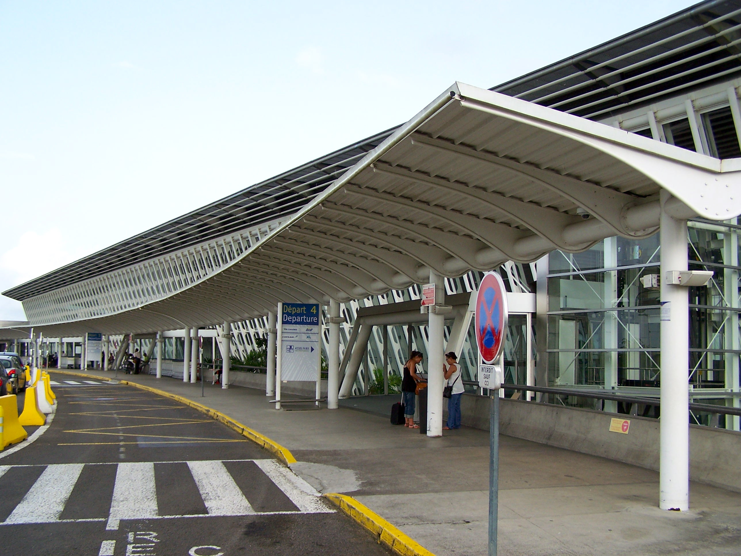 Aérogare (niveau départ) de l'aéroport de Pointe-à-Pitre, Guadeloupe